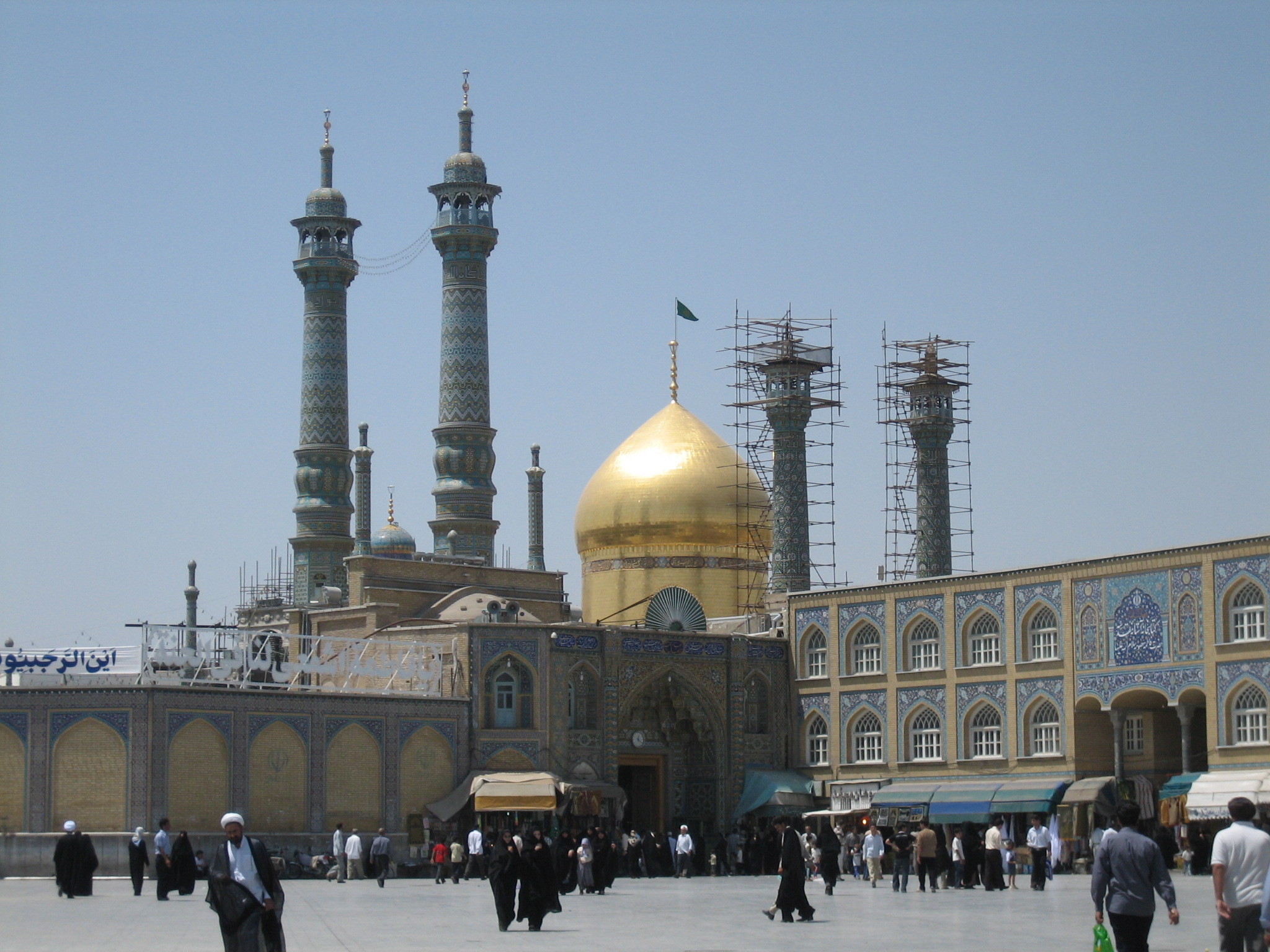 Shrine of Fatemeh Masoumeh in Qum, Iran in August 2005.